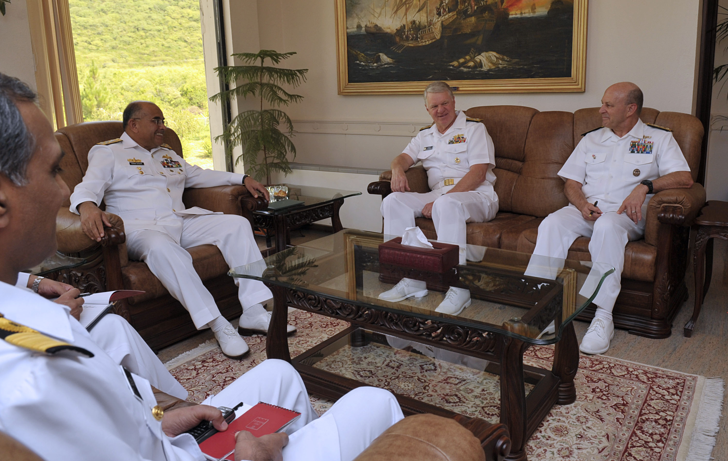 ISLAMABAD (Aug 20, 2009) Chief of Naval Operations (CNO) Adm. Gary Roughead meets with Chief of Naval Staff of Pakistan, Adm. Noman Bashir during an office call at the Pakistan Naval Headquarters in Islamabad. Roughead is on an official counterpart visit to Pakistan to strengthen maritime partnerships. (U.S. Navy photo by Mass Communication Specialist 1st Class Tiffini Jones Vanderwyst/Released)